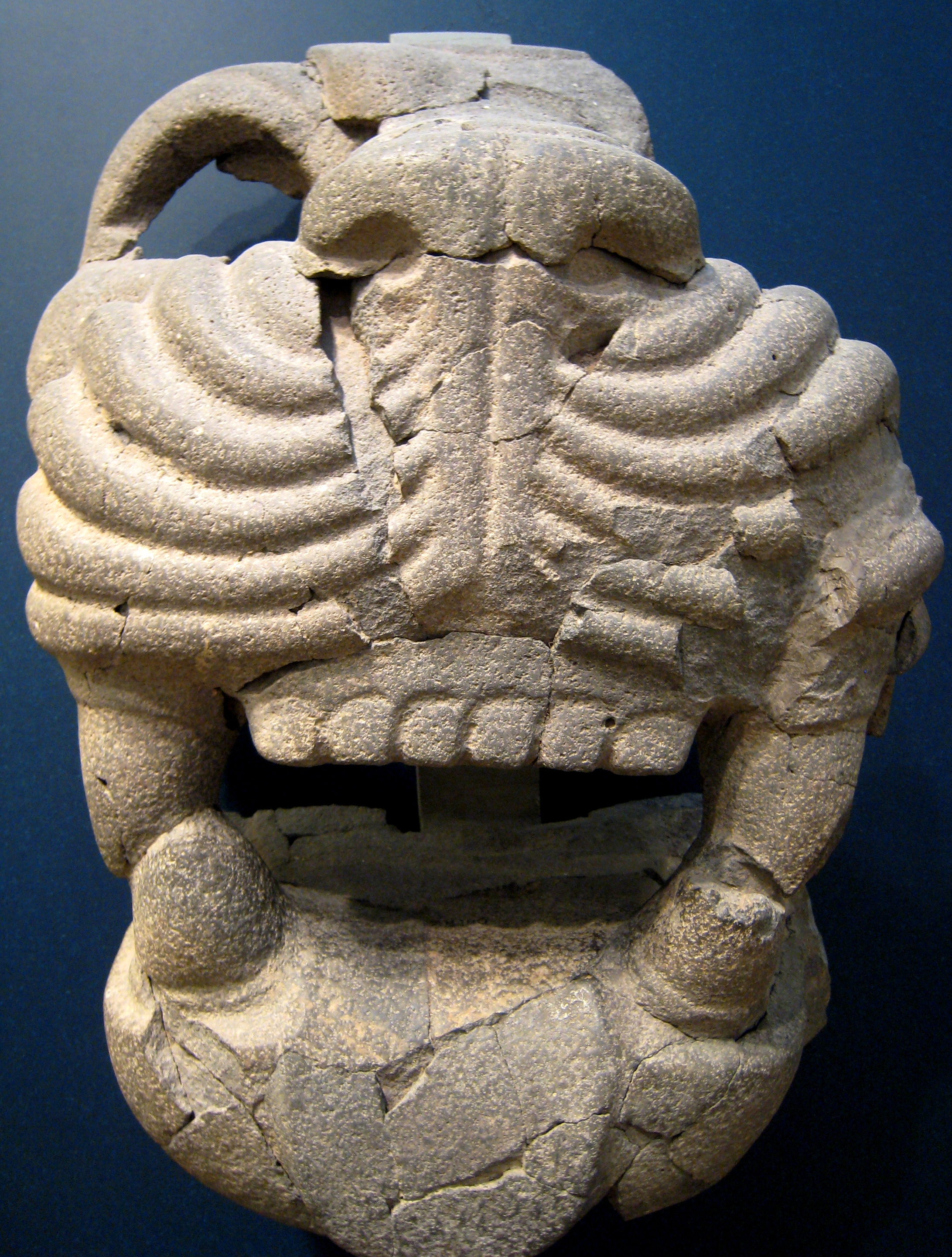 Head of a basalt lion from the Hama palace courtyard. 900-720 BC; Assyria.